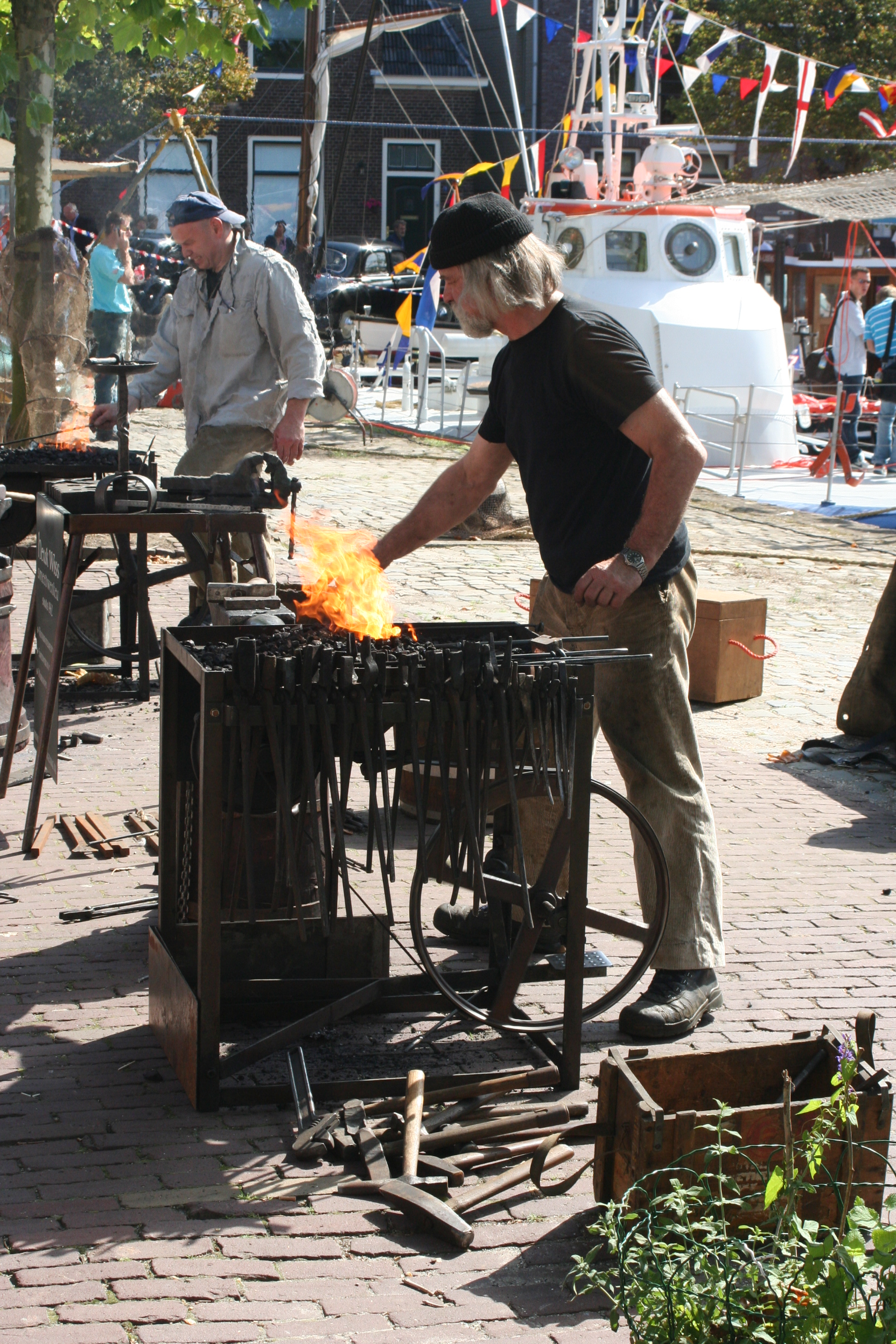 Iron forging for making ornamental work. Exhibition 2008 (Fishermen days, Visserij Dagen)